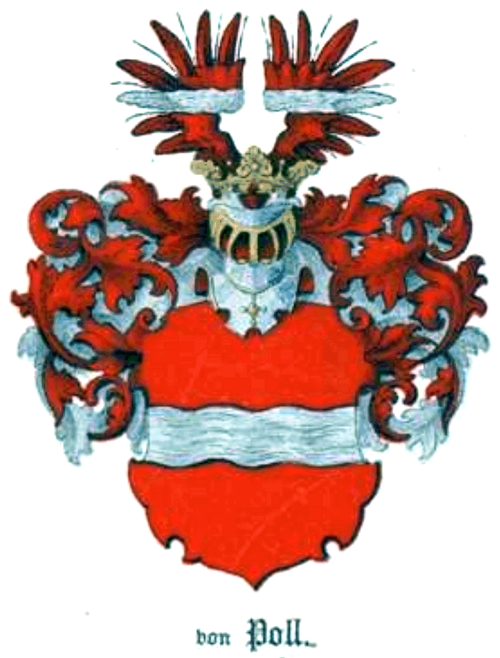 Coat of arms of von Poll family